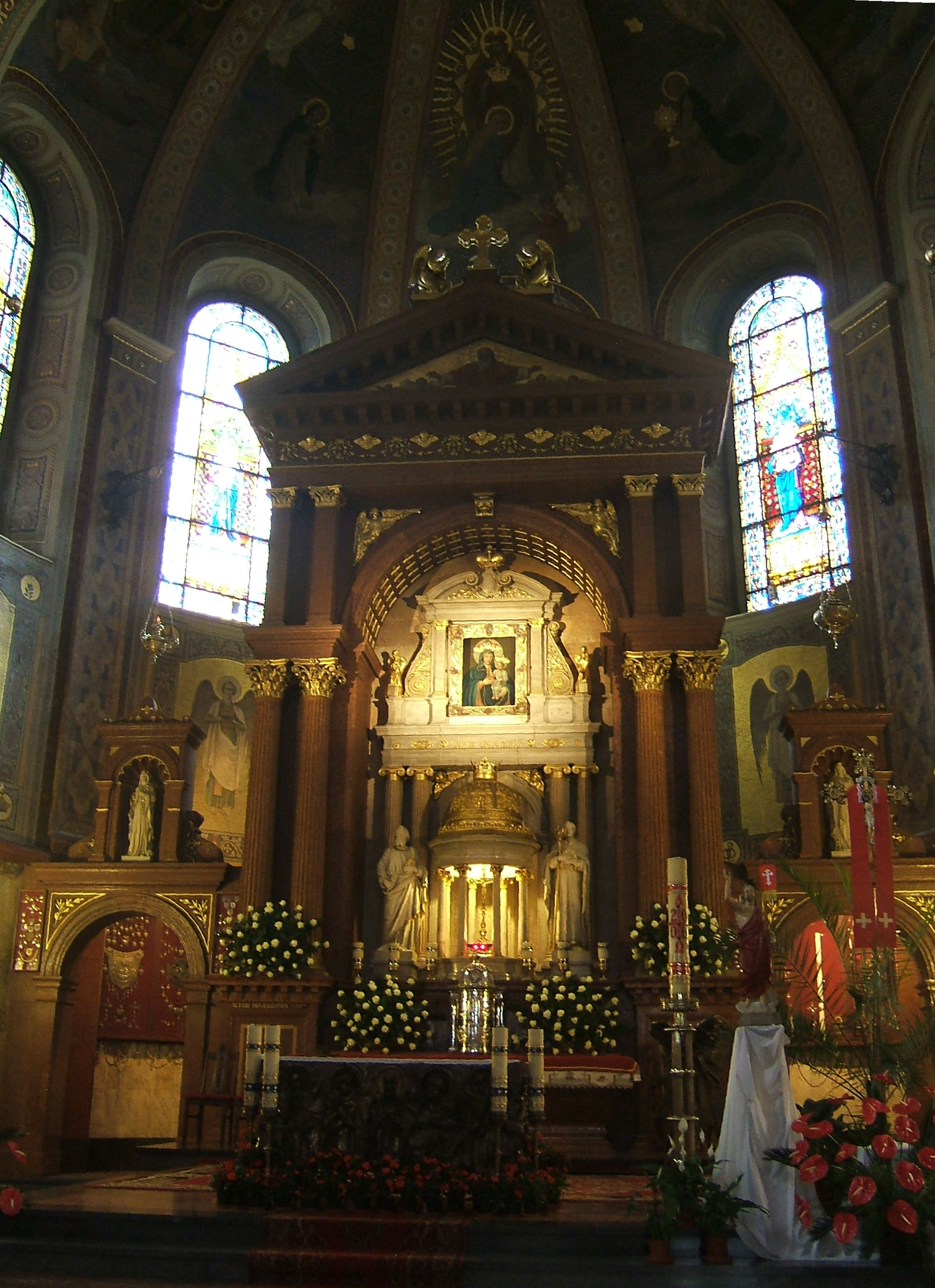 Quire of the basilica in Piekary Śląskie with the painting of St. Mary of Piekary Śląskie (17th cent.).